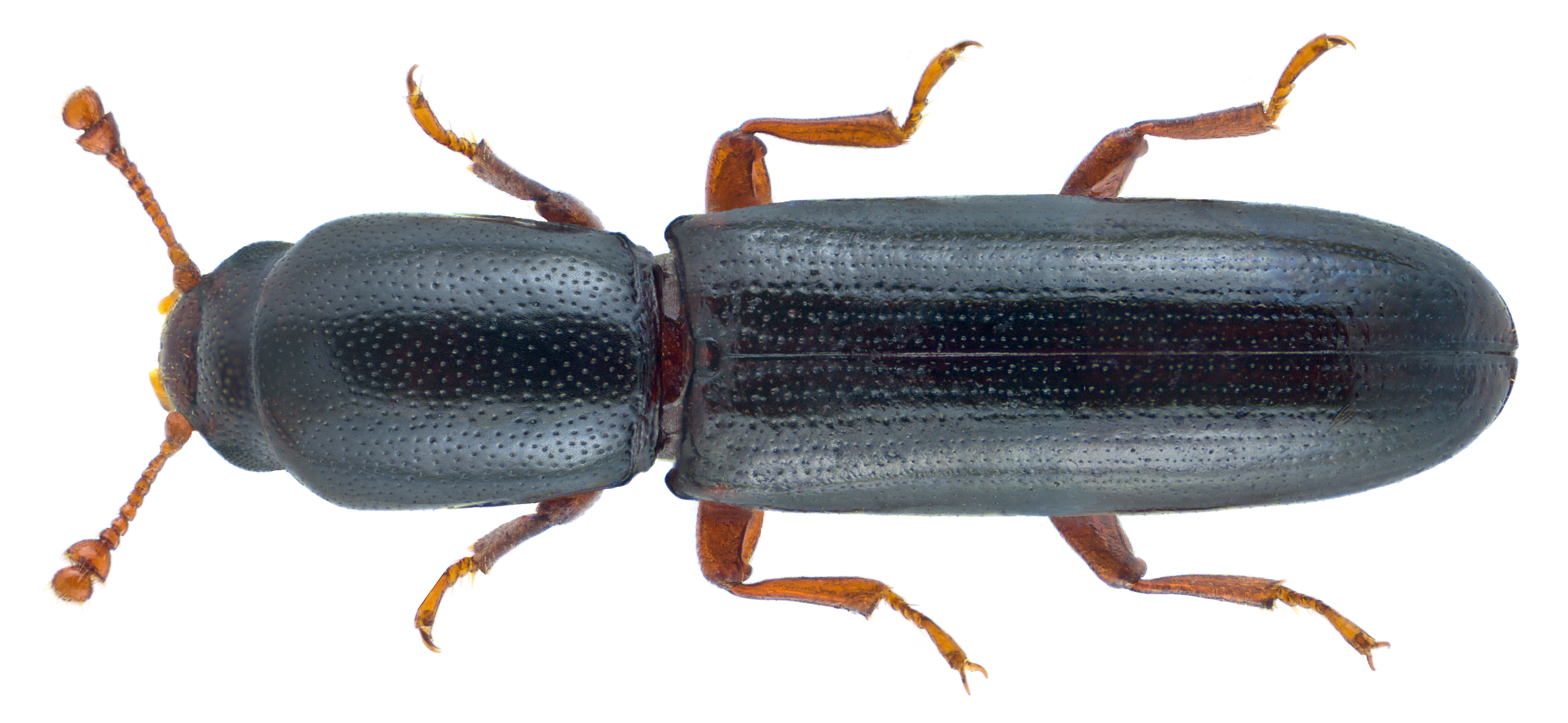 Family: Colydiidae Size: 4,2 mm (3,5 to 4,5 mm) Origin: Europe Ecology: on oaks and beeches in boreholes of insects Location: Gernsheim, Zwingenberg, 90 m, Stadtwald leg.det. A.Skale, 16.VI.2004 Photo: U.Schmidt, 2015